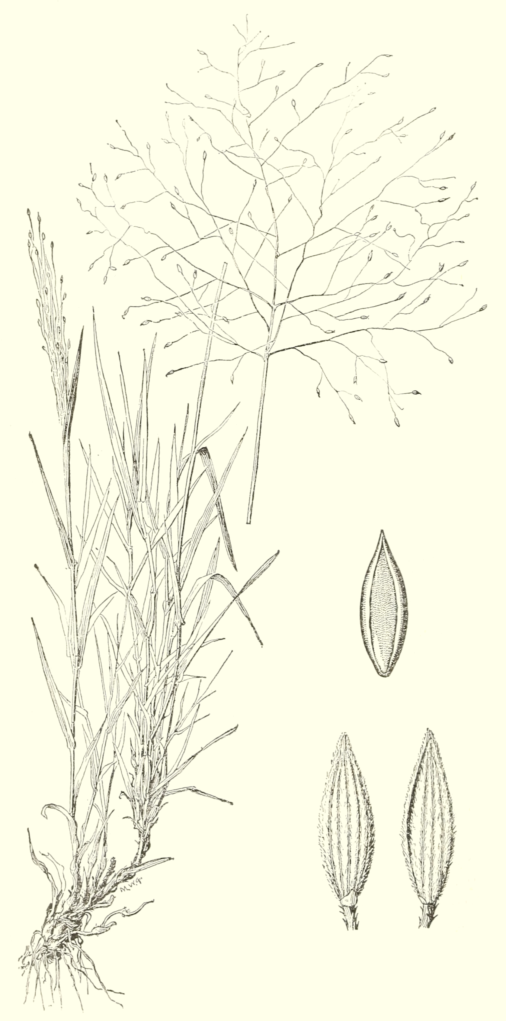 Digitaria cognata (Schult.) Pilg. - Fall witchgrass, Fall crabgrass, Mountain hairgrass, Carolina crabgrass, Carolina cottontop, Diffuse crabgrass